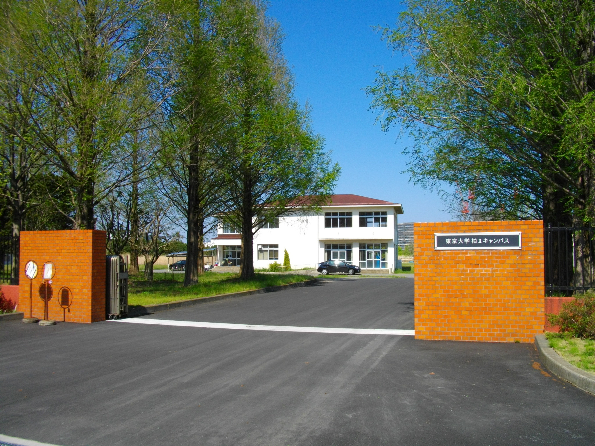 University of Tokyo Kashiwa campus II